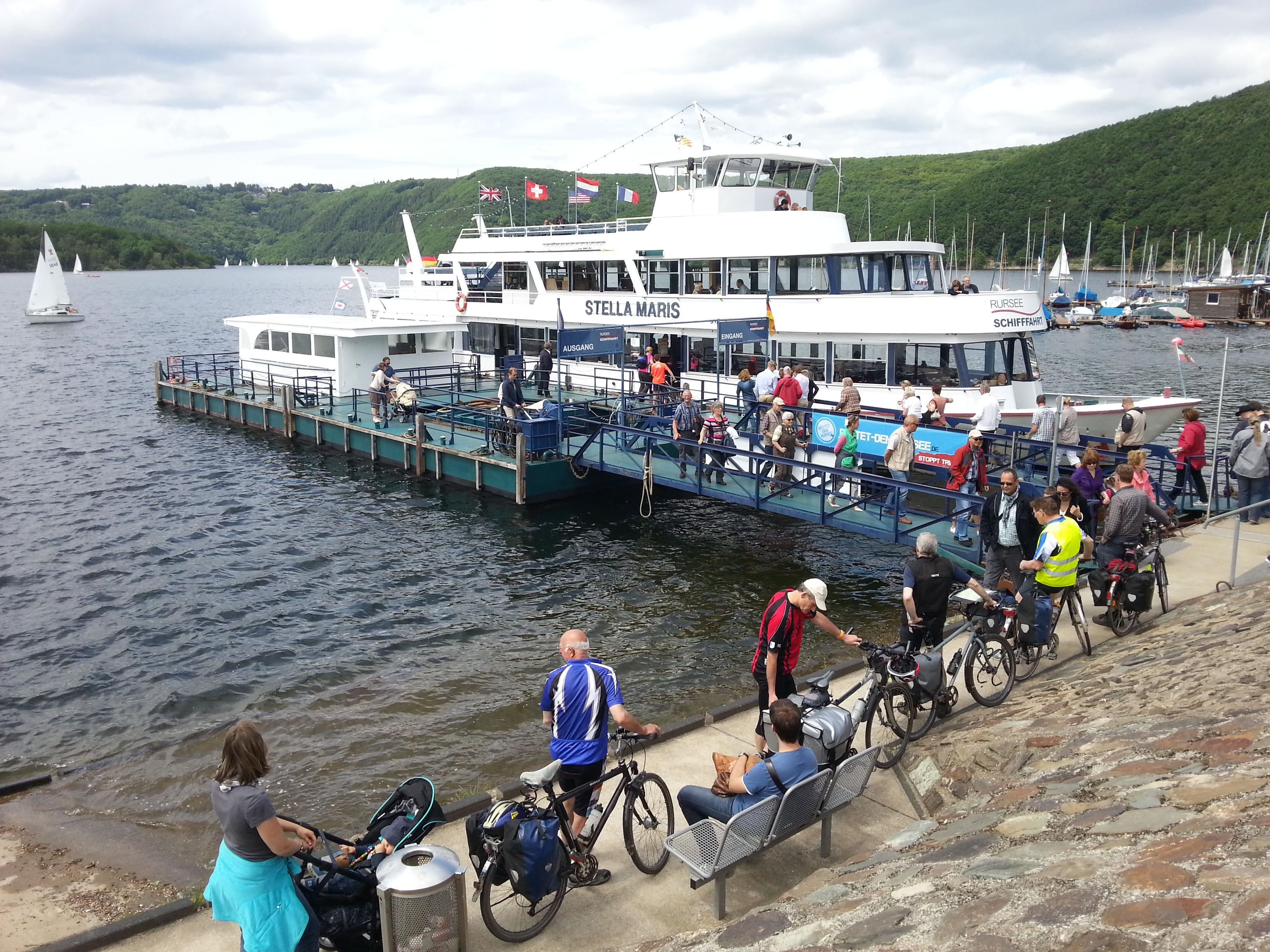 The passenger ship Stella Maris of the Rurseeschifffahrt in Schwammenauel at the Rur Dam.